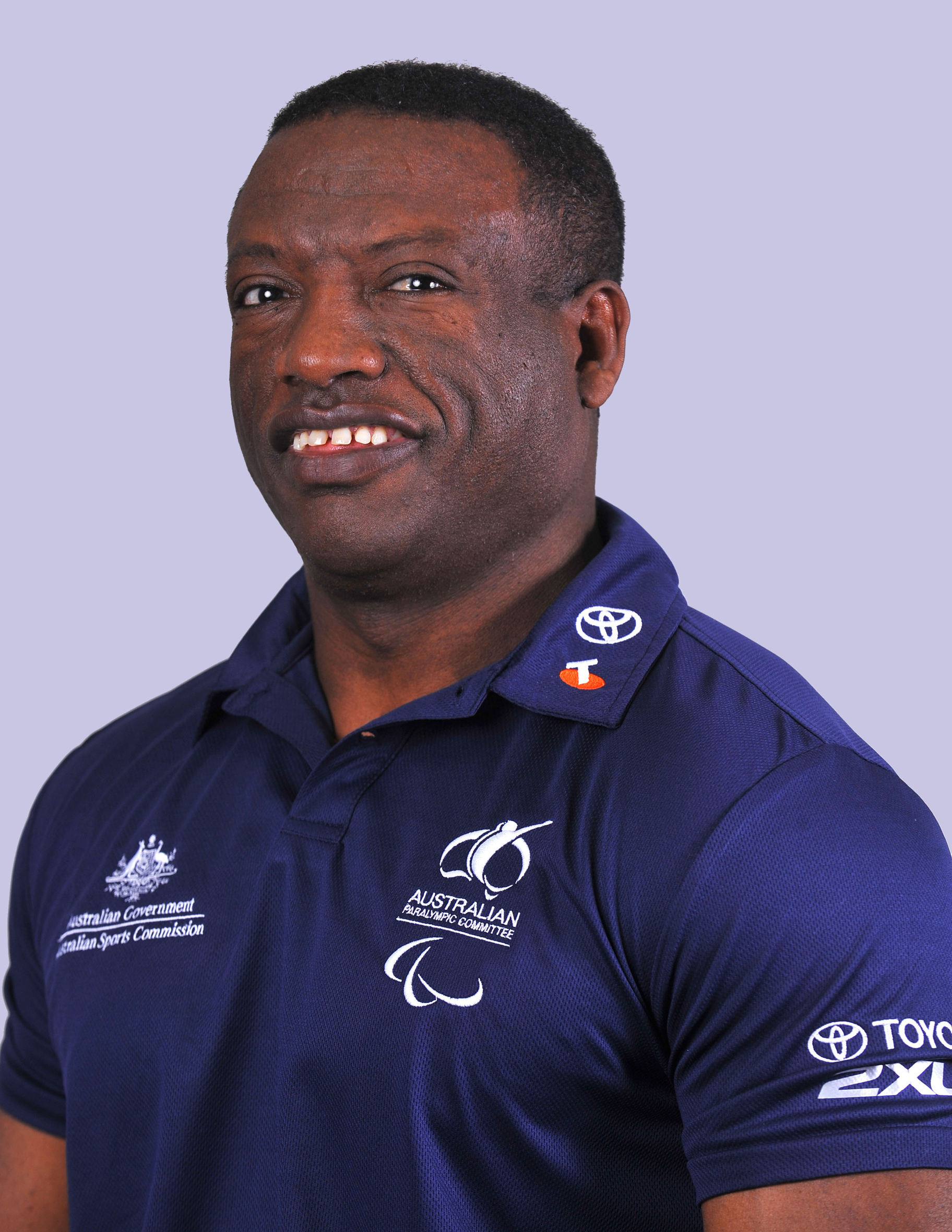 Portrait of Australian powerlifter Abebe Fekadu, 2012 Australian Paralympic (shadow) Team athlete